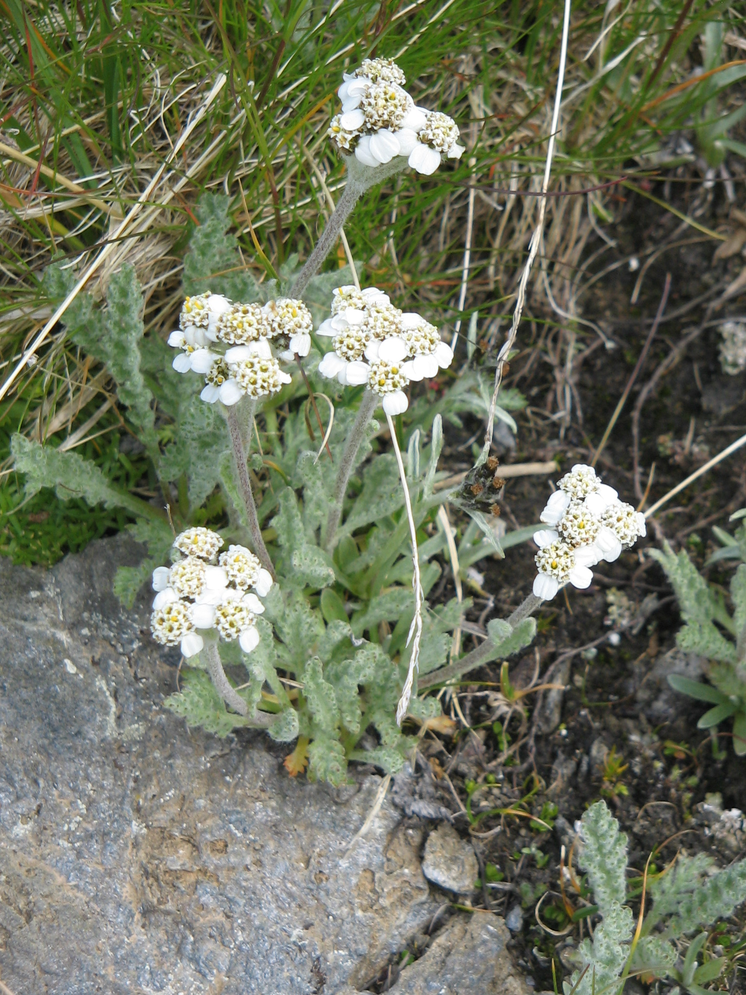 Achillea nana